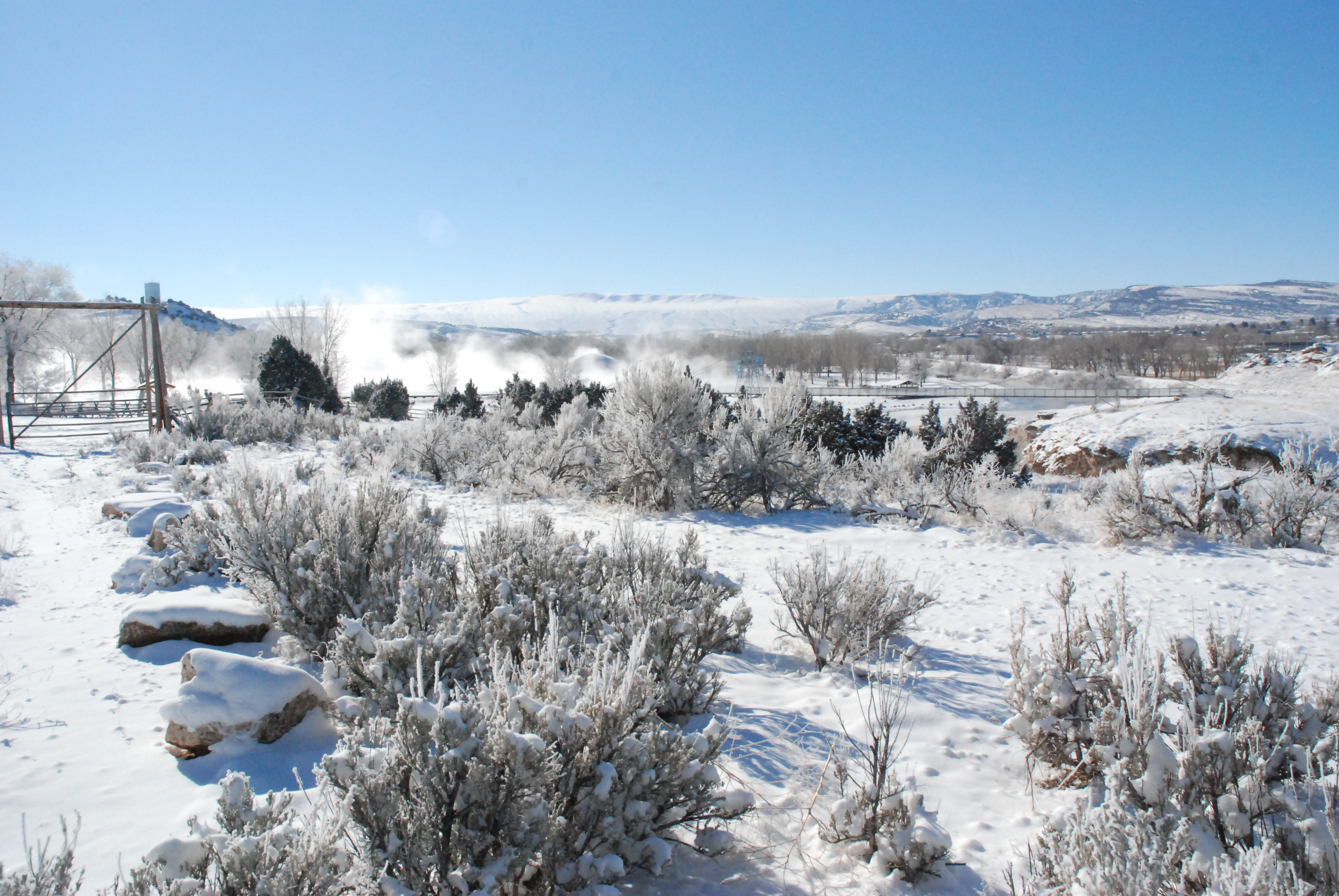 A view of Hot Springs State Park looking south